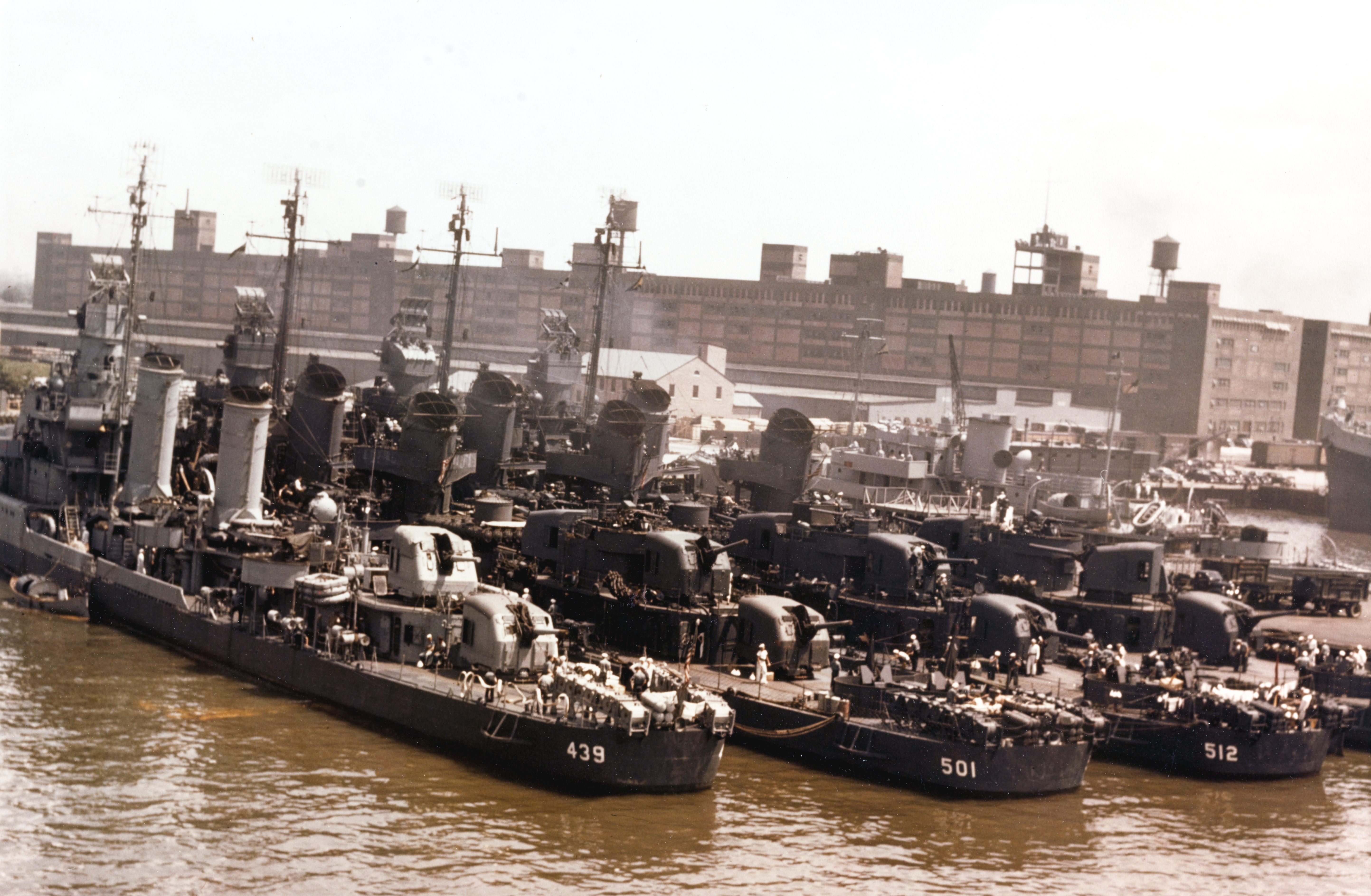 U.S. Navy destroyers Naval Station Norfolk, Virginia (USA), during the spring or early summer of 1943. They are (from left to right): USS Edison (DD-439), USS Schroeder (DD-501), USS Spence (DD-512) and USS Foote (DD-511).